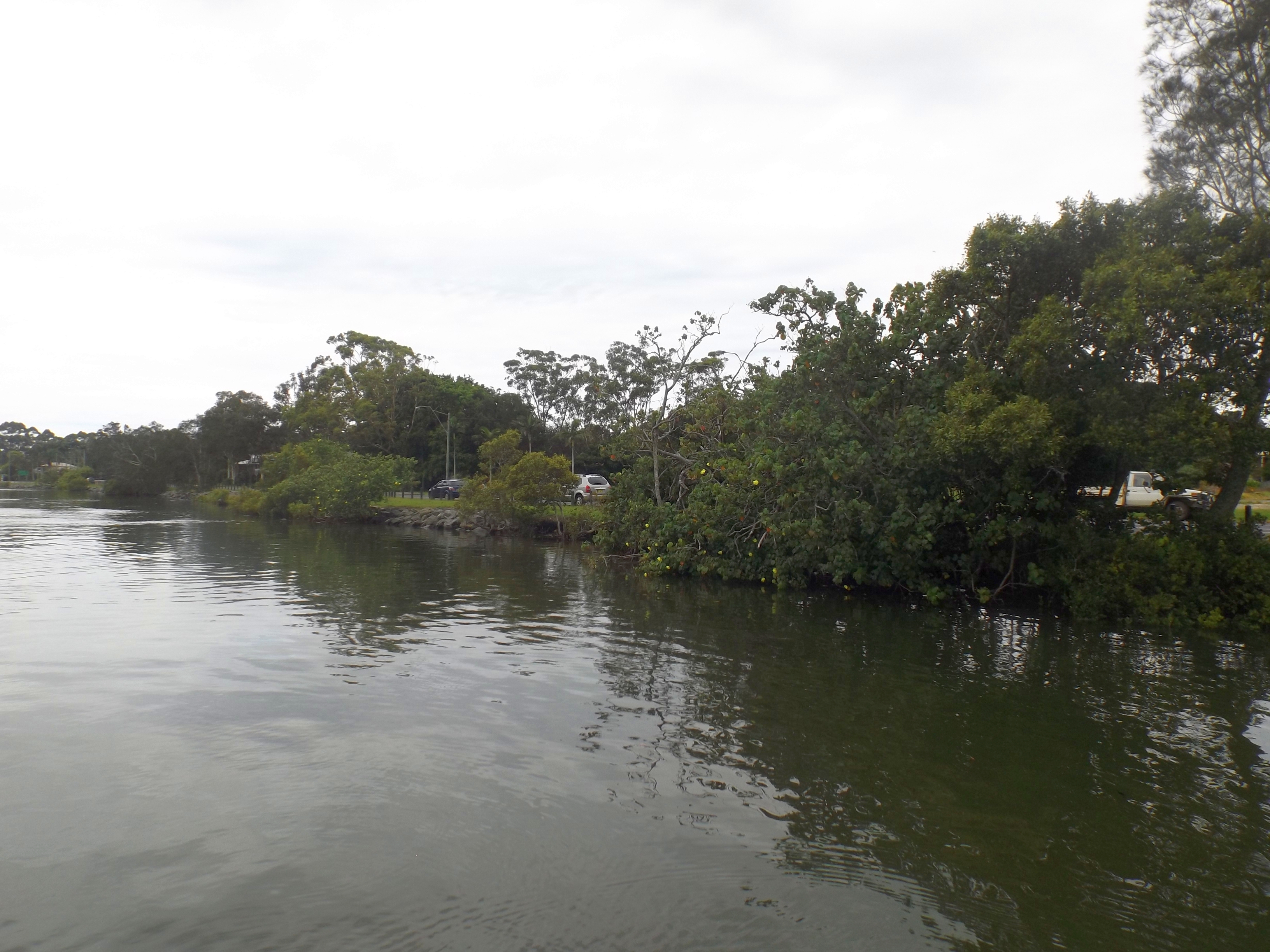 Photo of the southern bank of the Tweed River at Chinderah, Tweed Shire, New South Wales, Australia.